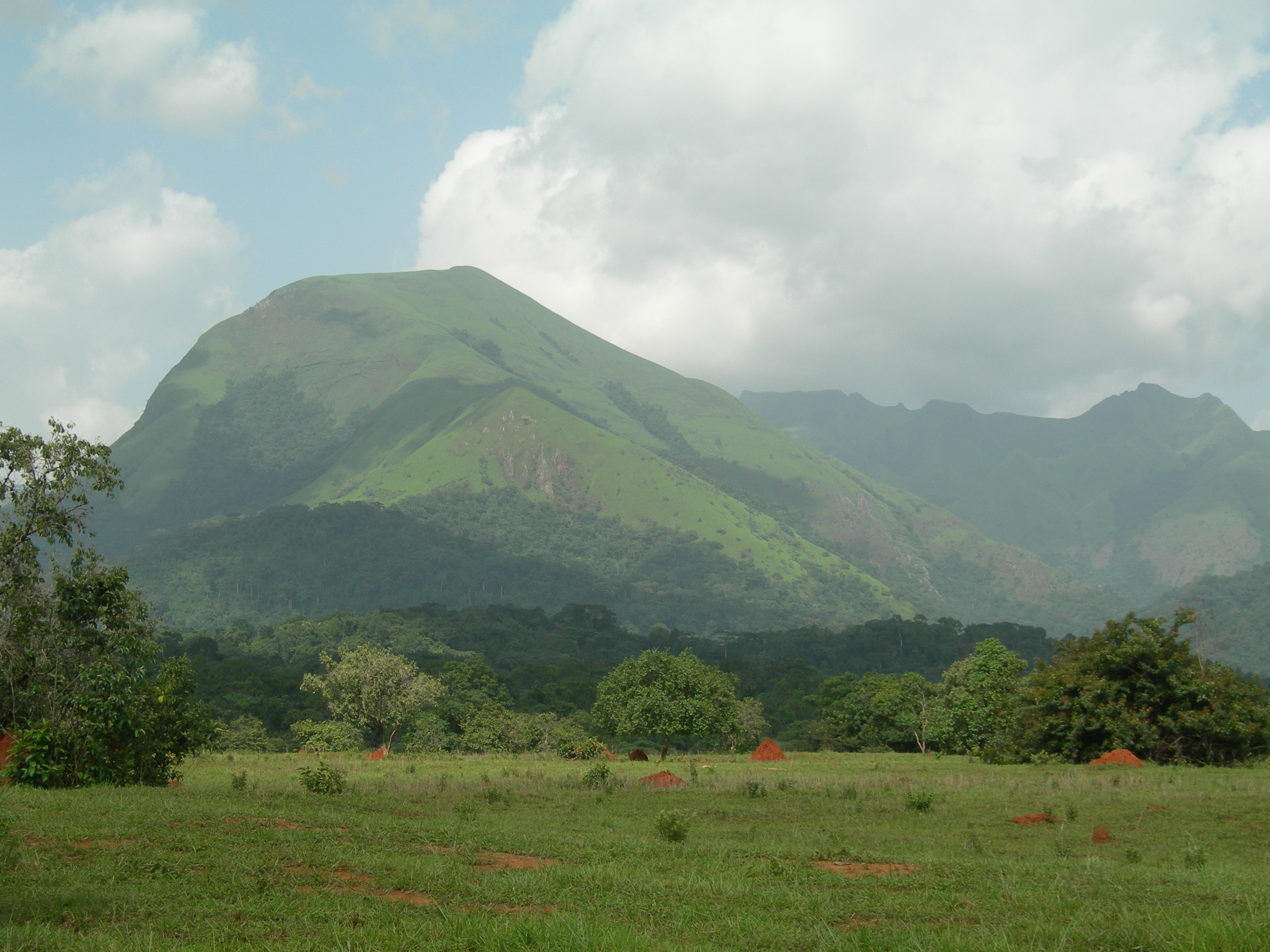 Mount Nimba